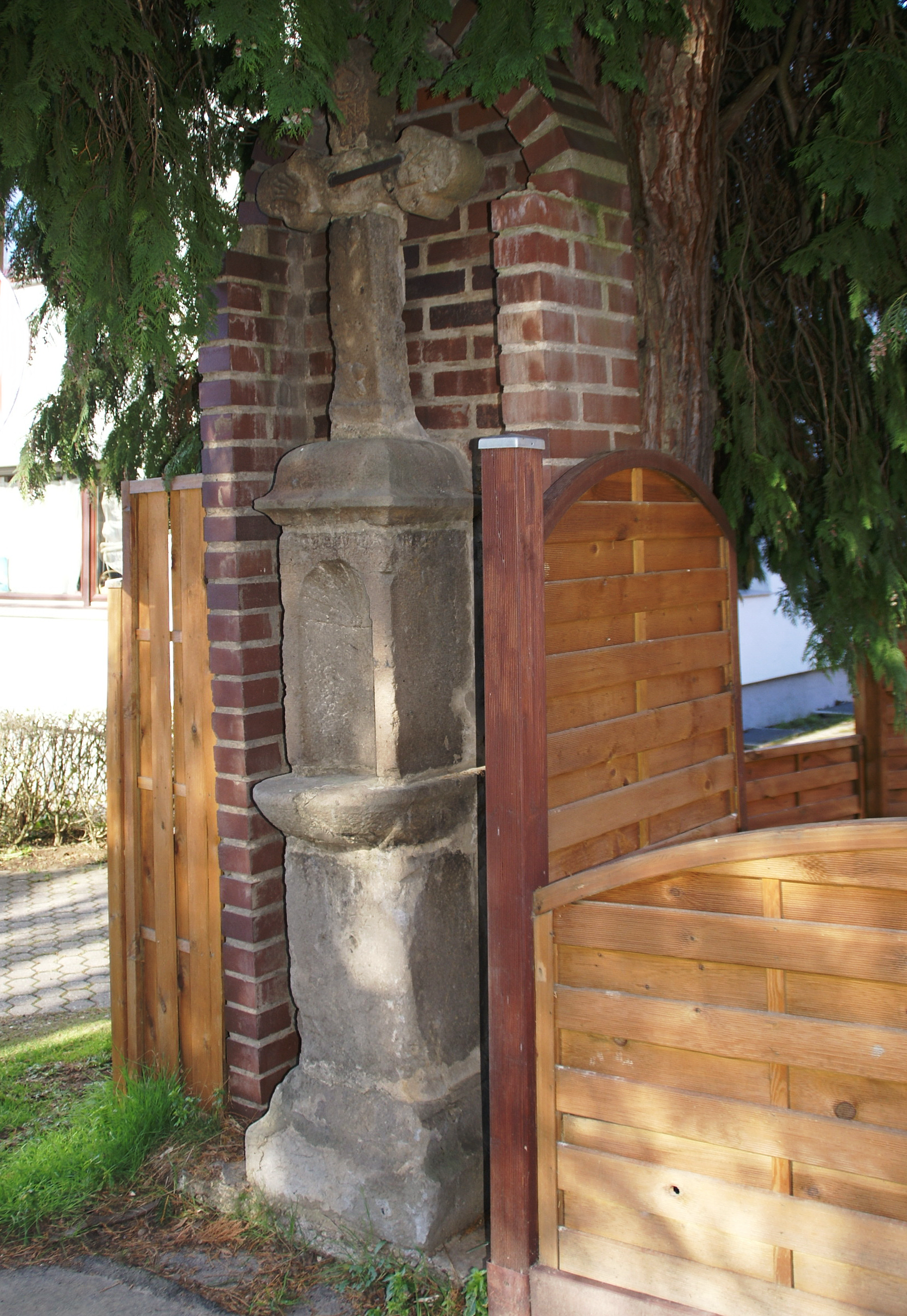 Wayside cross in Oelinghoven, Im Winkel